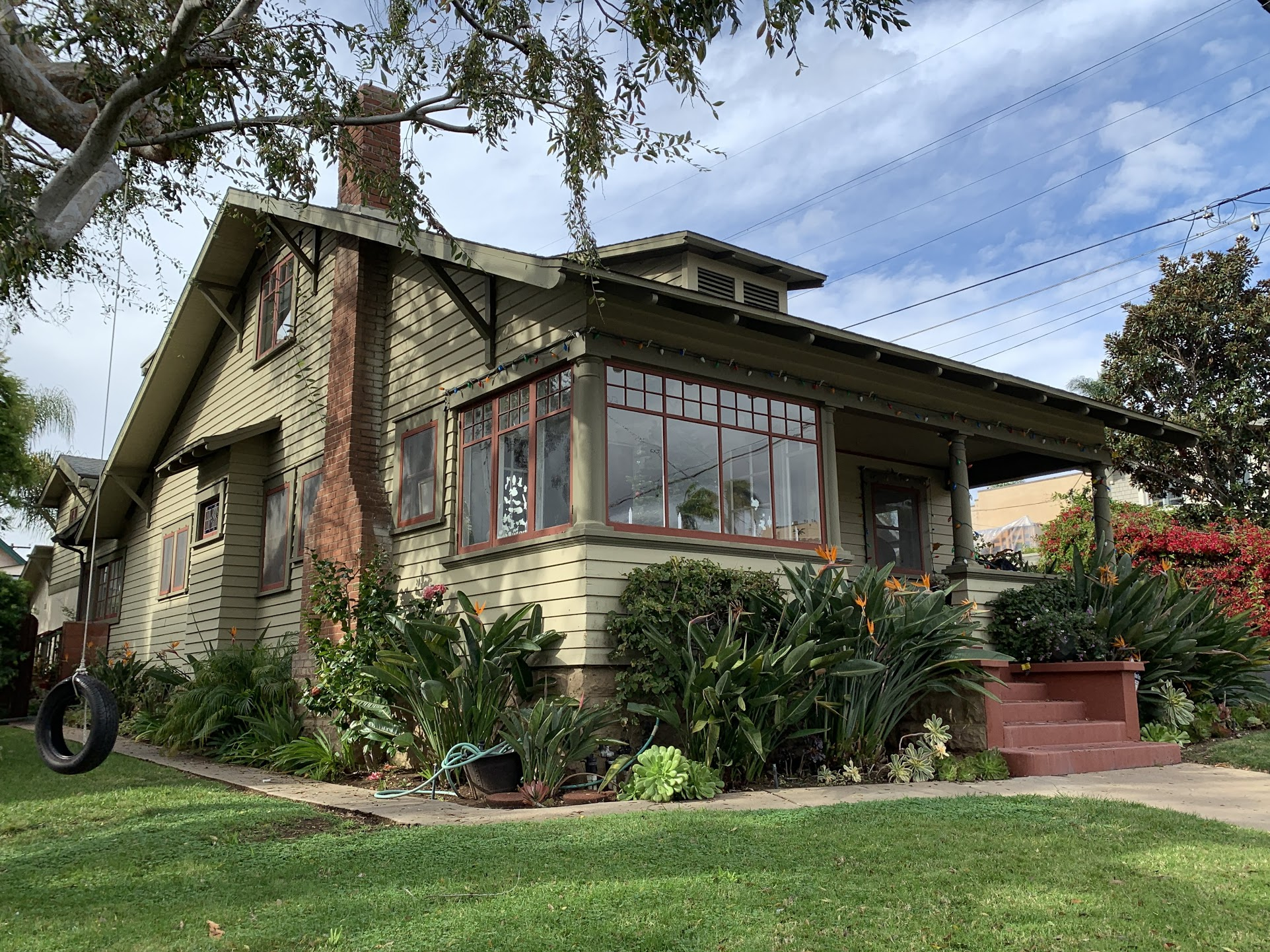 Architecture in Mission Hills, San Diego